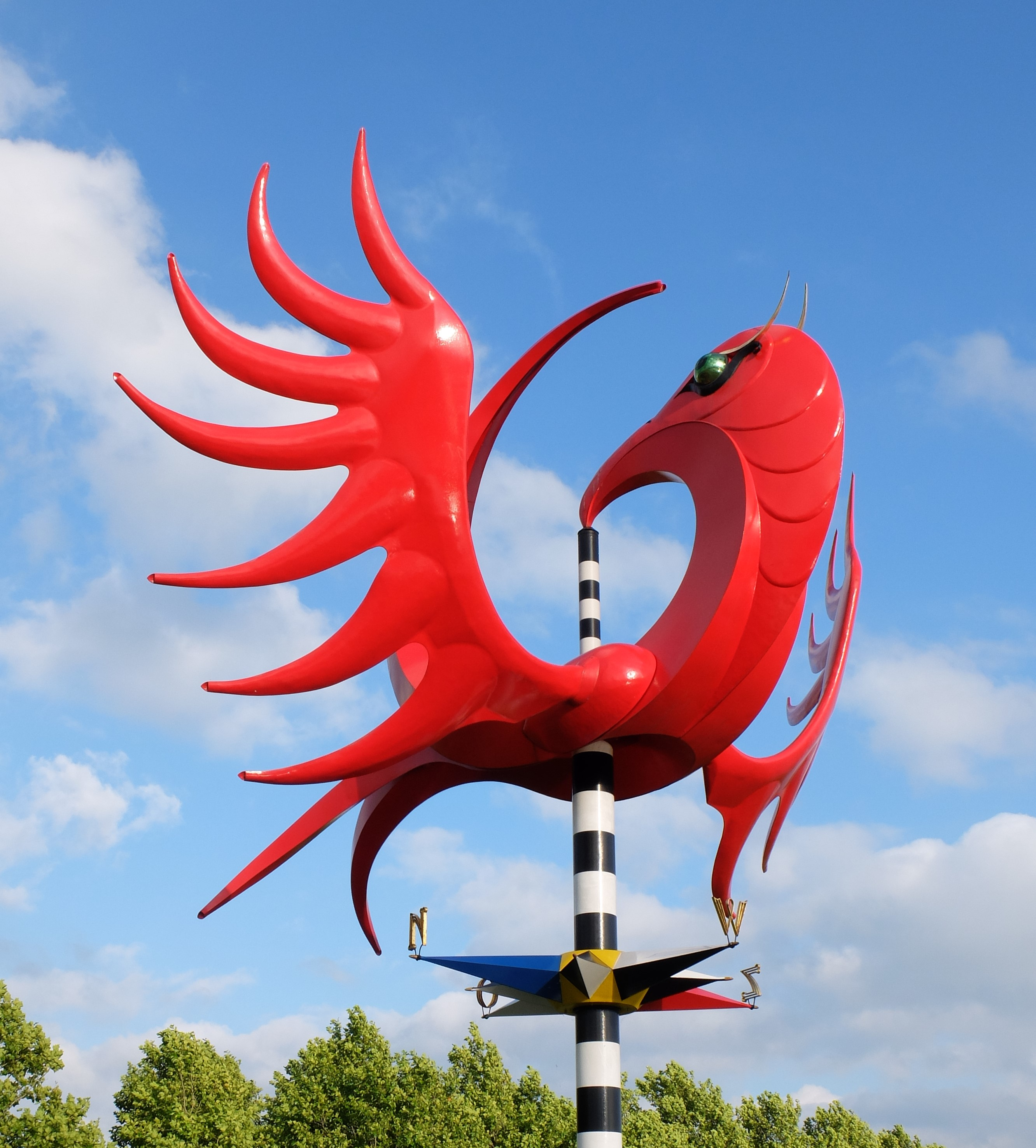 Statue "de Vuurvogel"